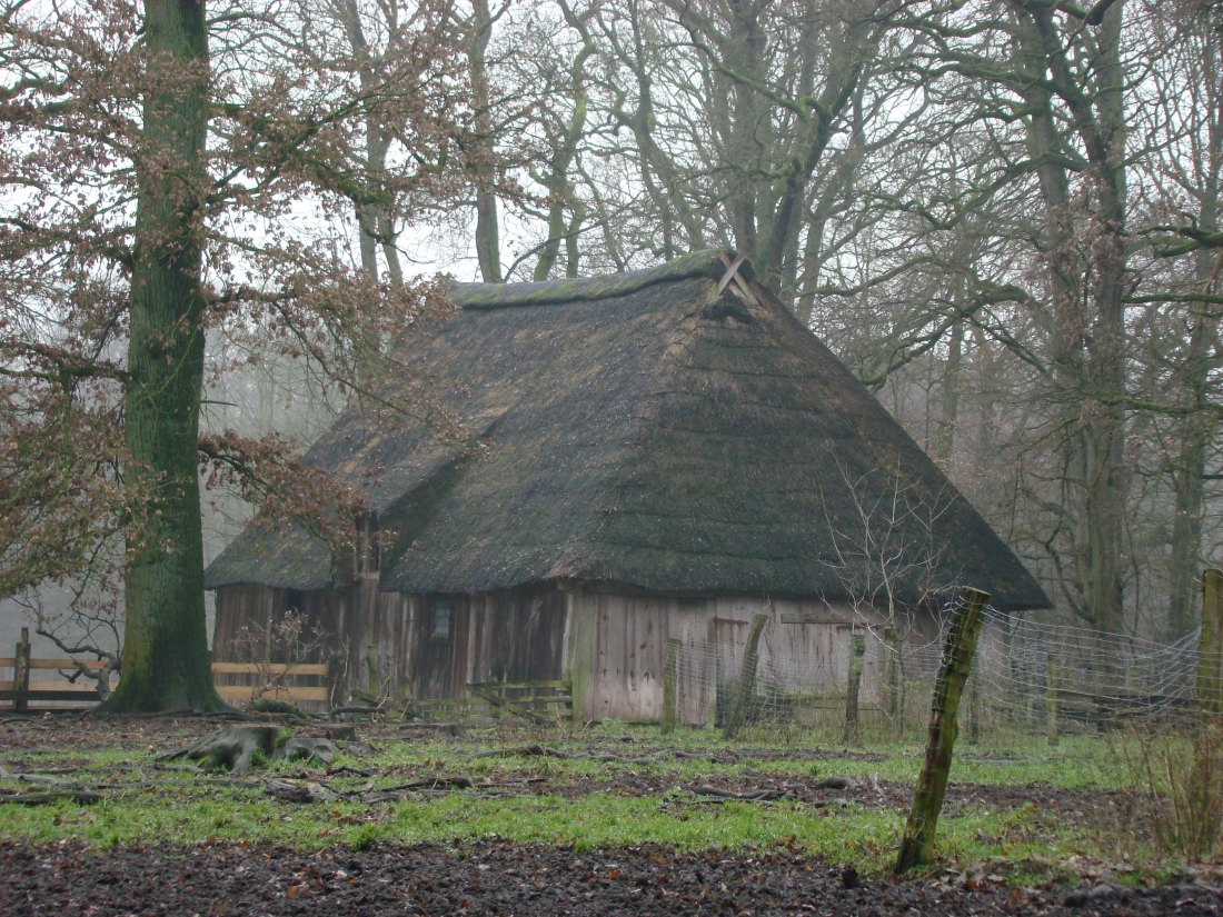 Heidschnucke sheep shed on the Lüneburg Heath near Niederohe in north Germany